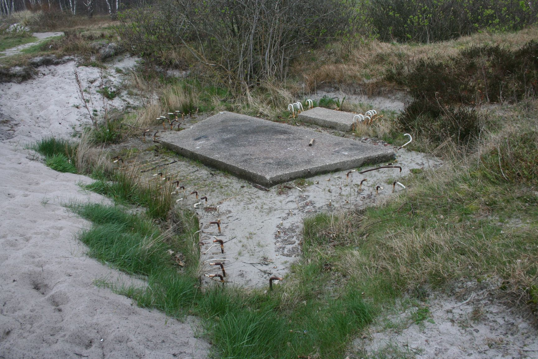 Schron Jastarnia [1]